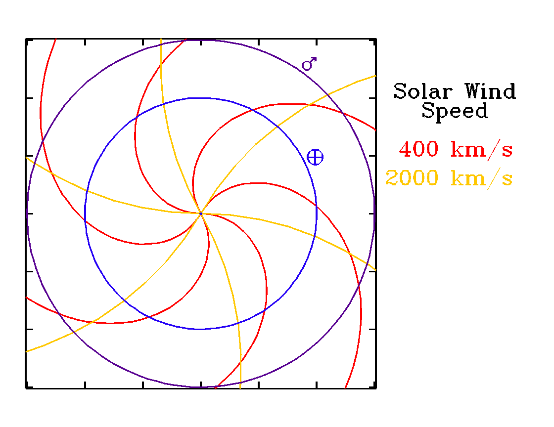 The Parker spiral structure of the average interplanetary magnetic field (IMF), shown in the solar equatorial plane for two solar wind speeds, 400 km/s and 2000 km/s. The actual direction of the IMF at any point may be inward or outward, but in either case, its field lines will on average be spirals as shown. Variations may be large, including significant components out of the plane of the figure.